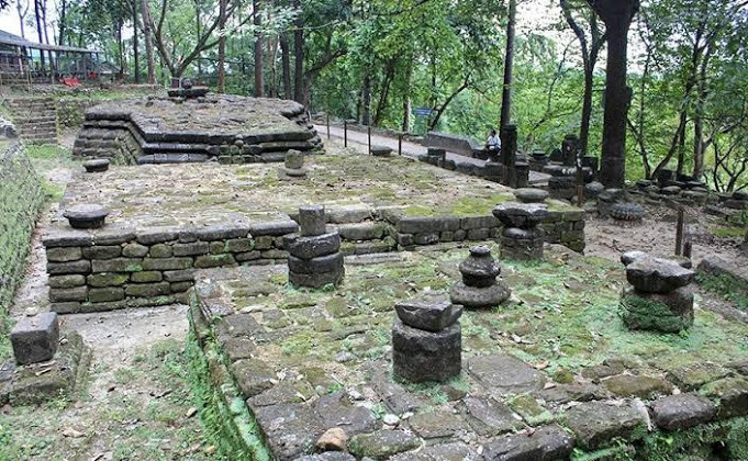 Malini Than temple complex